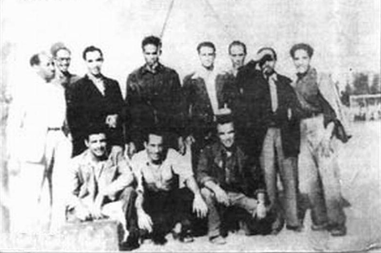 The founder cometee of the MC Oran in 1946